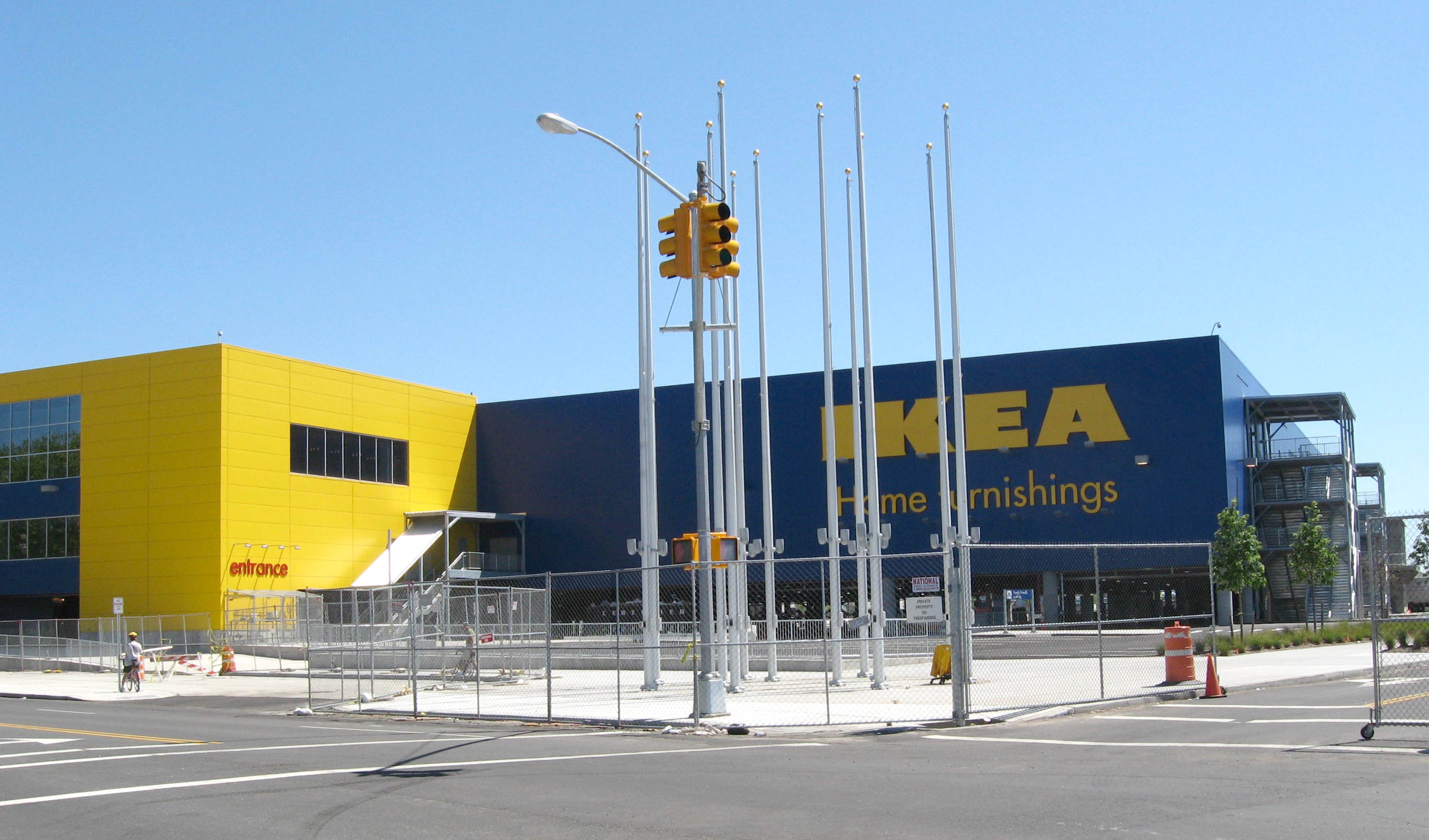 Looking south at Ikea store in Red Hook, Brooklyn weeks before opening